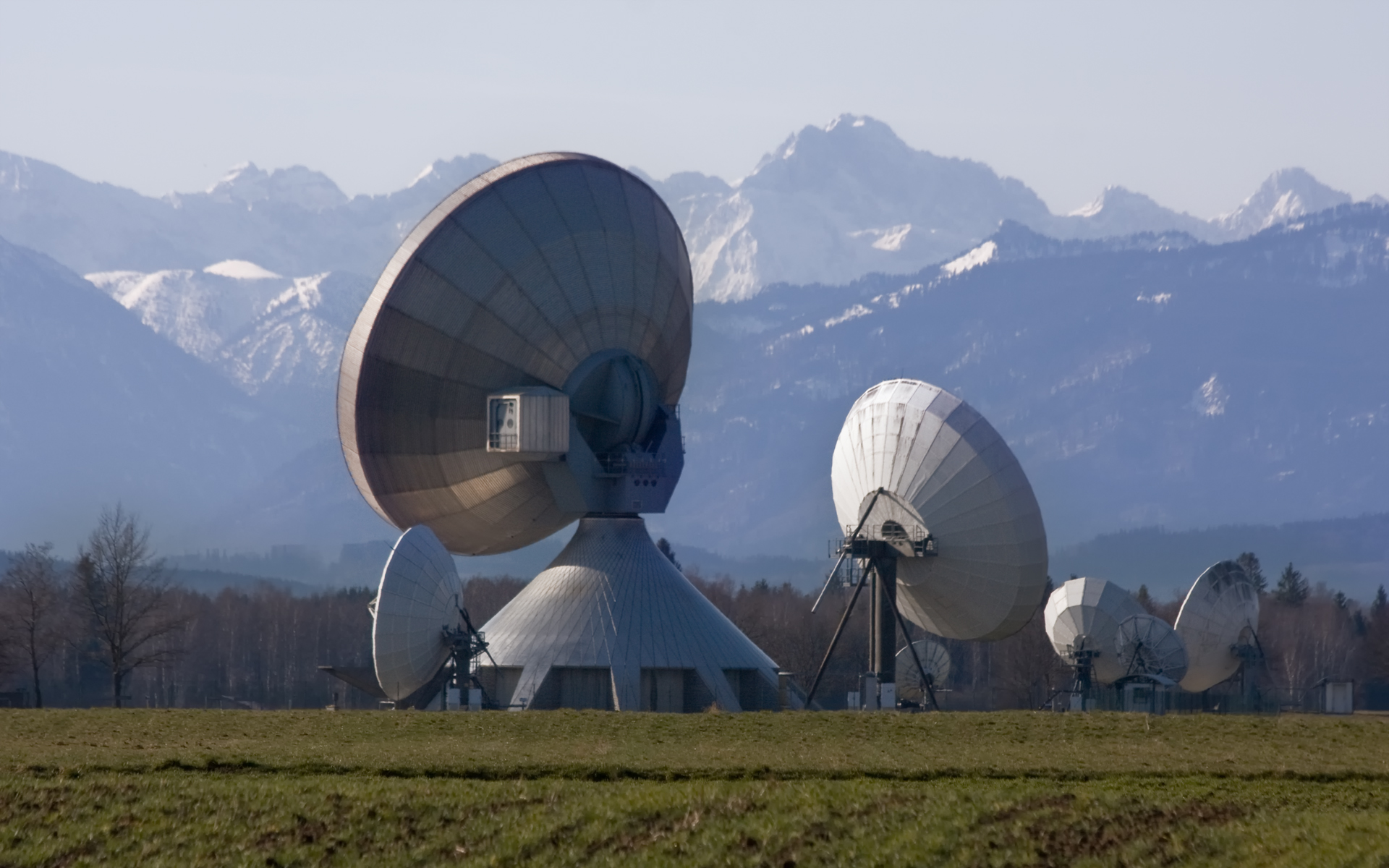 The biggest facility for satellite communication in Raisting, Bavaria, Germany.